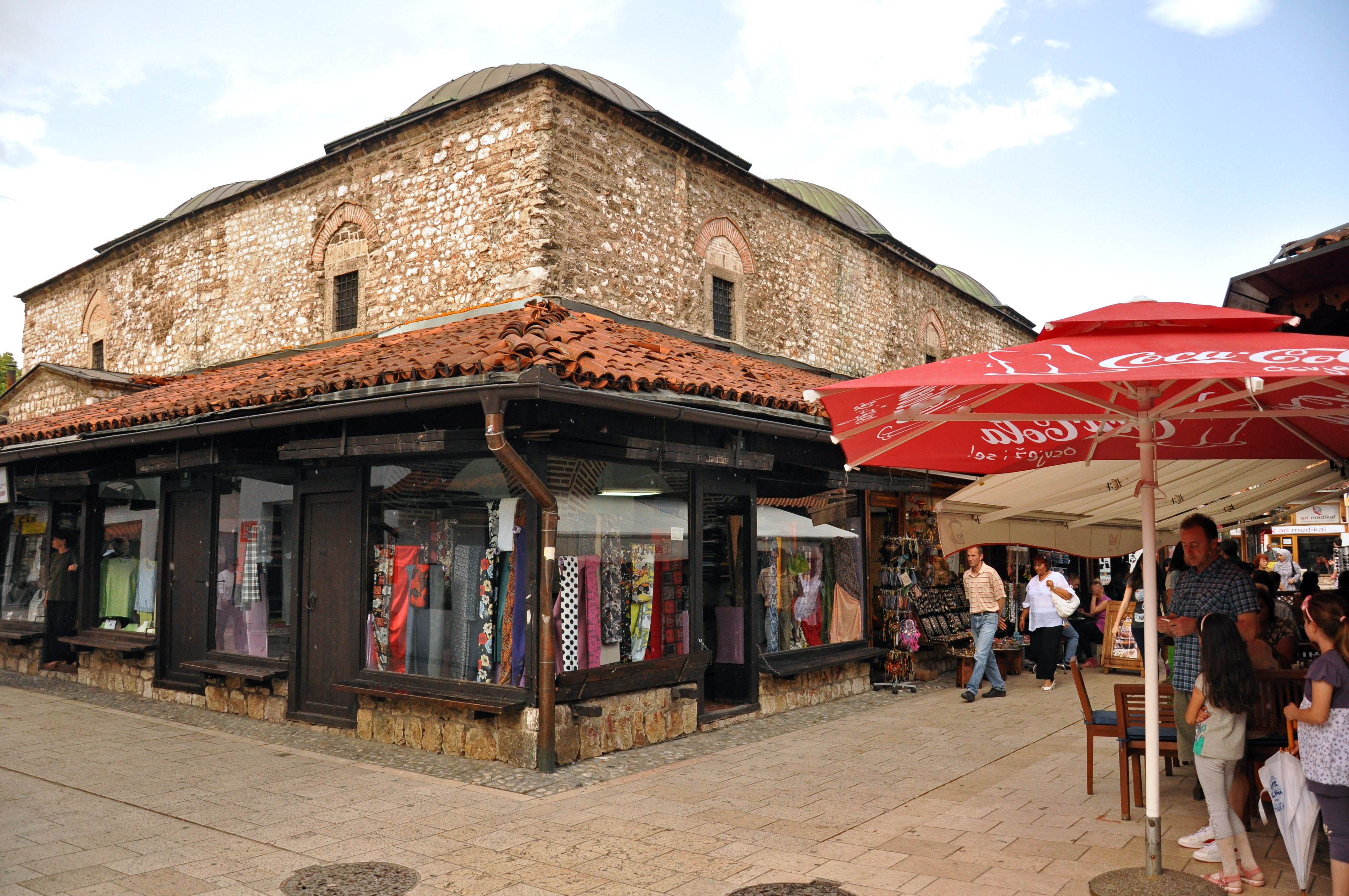 Built in the 15th century and considered the “heart and soul” of Sarajevo, this old bazaar is home to a many of the city’s hotels, restaurants, and nightspots. While the area was the center of trade and commerce during Ottoman rule, it’s now packed with a mix of locals, travelers, and tour groups.